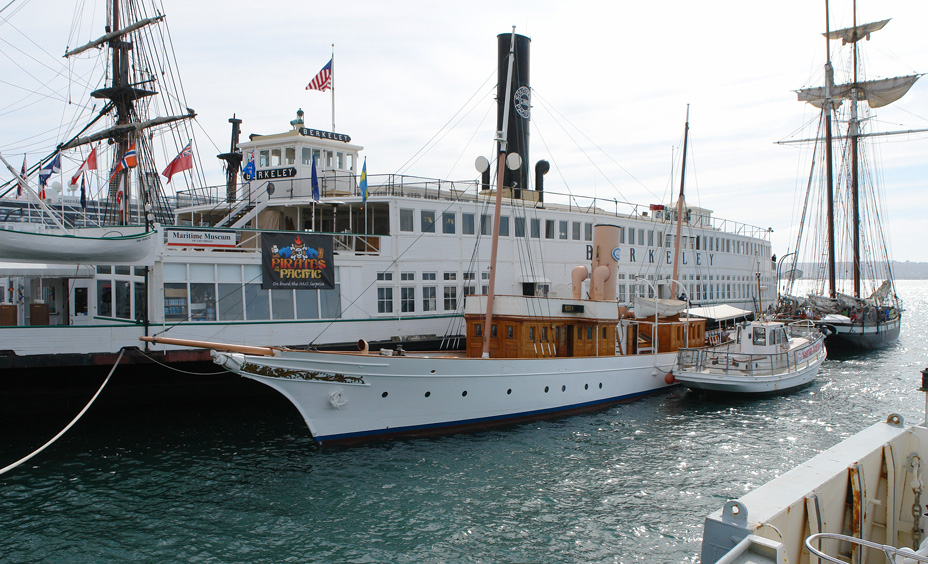 Steam yacht Medea moored alongside ferryboat Berkeley at San Diego Maritime Museum.